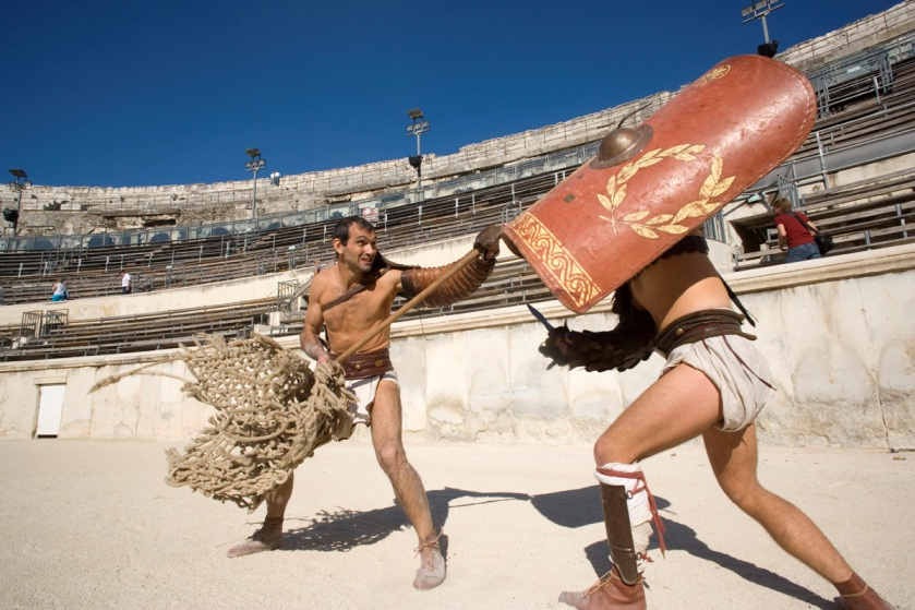 re-enactment of a gladiator fight in the arena of Nîmes.